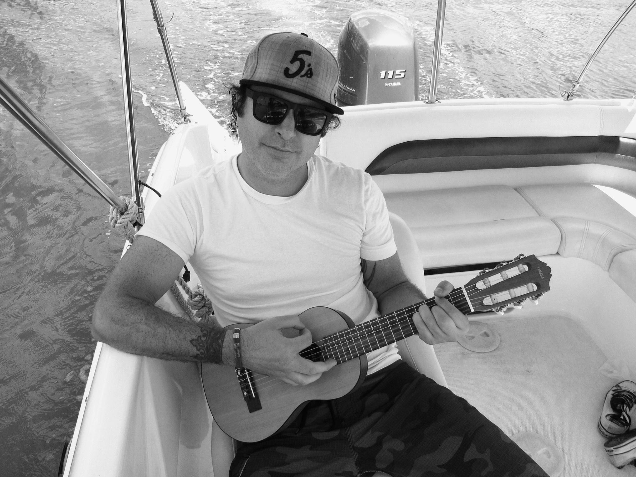 Kevin Rudolf playing a ukelele